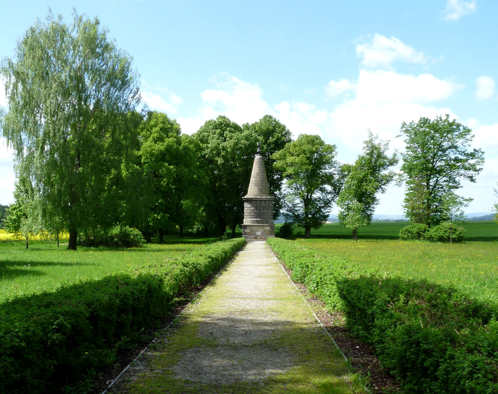 Jan Žižka monument by the village of Žižkovo Pole, Havlíčkův Brod District, Vysočina Region, Czech Republic.